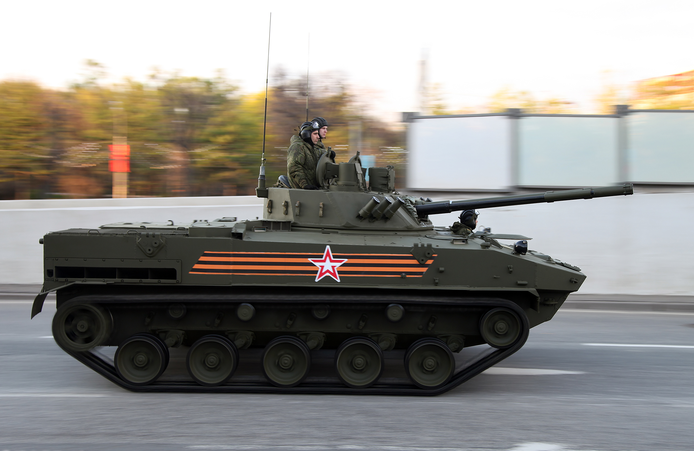 BMD-4M